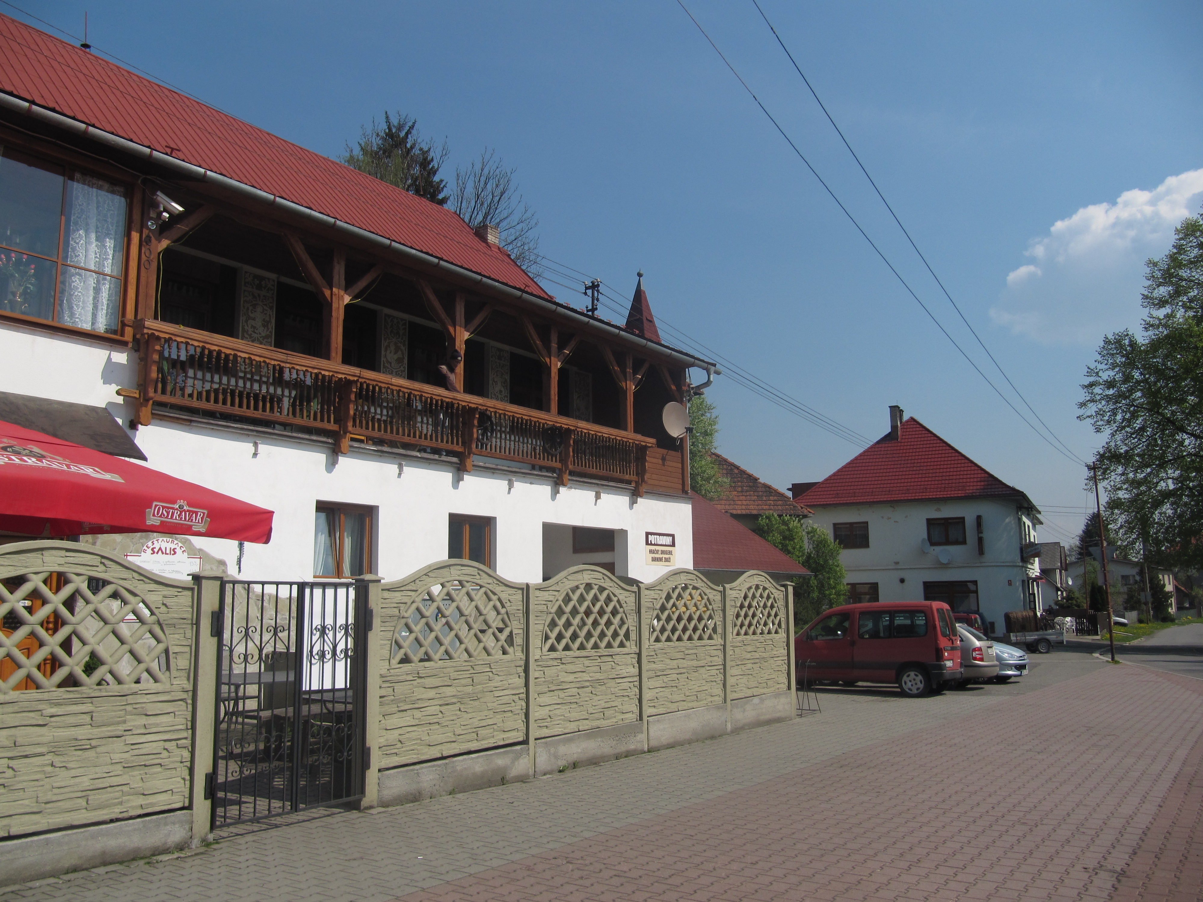 Liptál in Vsetín District, Czech Republic. Restaurant.